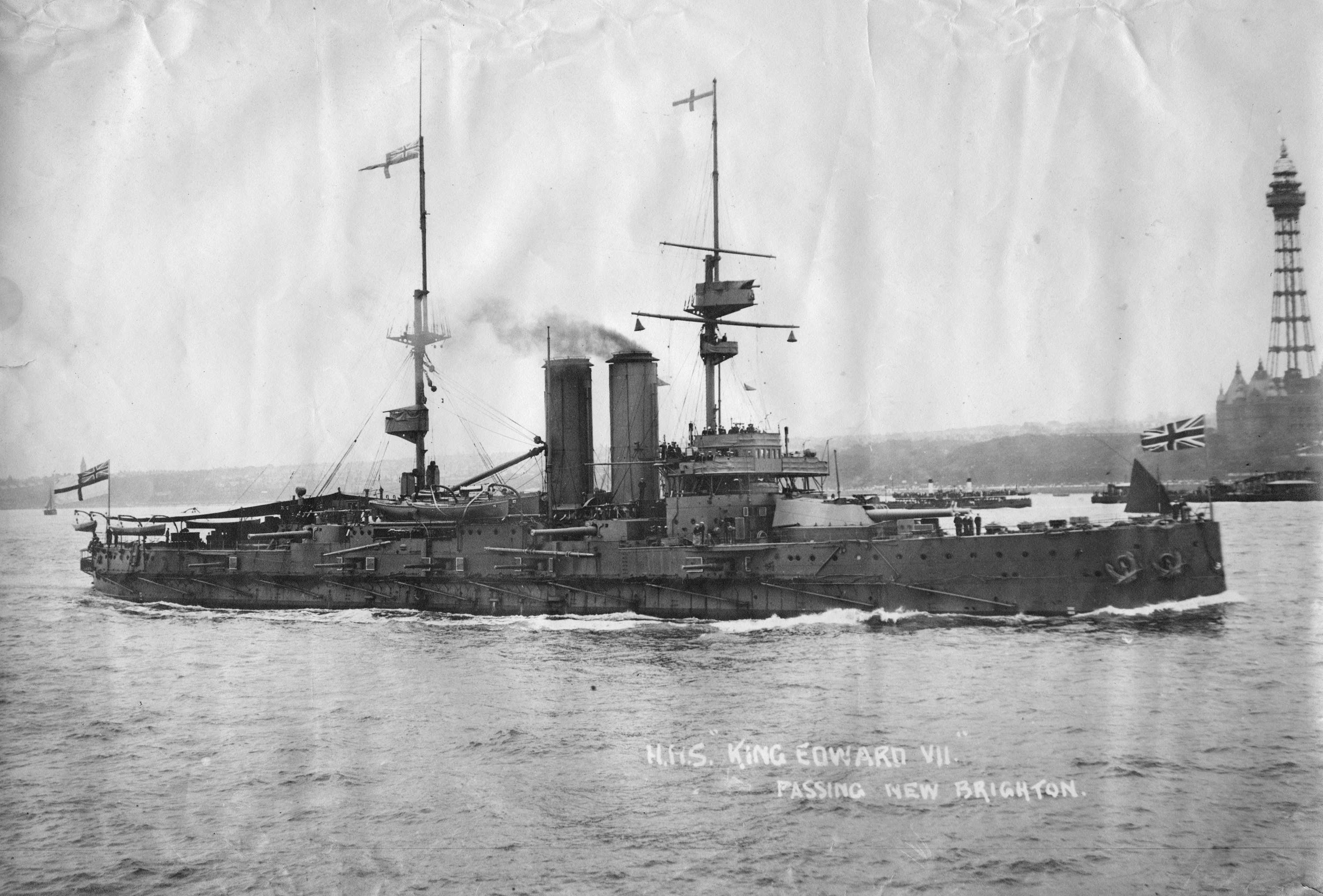 H.M.S. "King Edward VII" passing New Brighton, British Columbia, Canada.